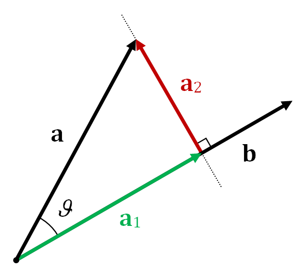 Projection of a on b (a1), and rejection of a from b (a2).